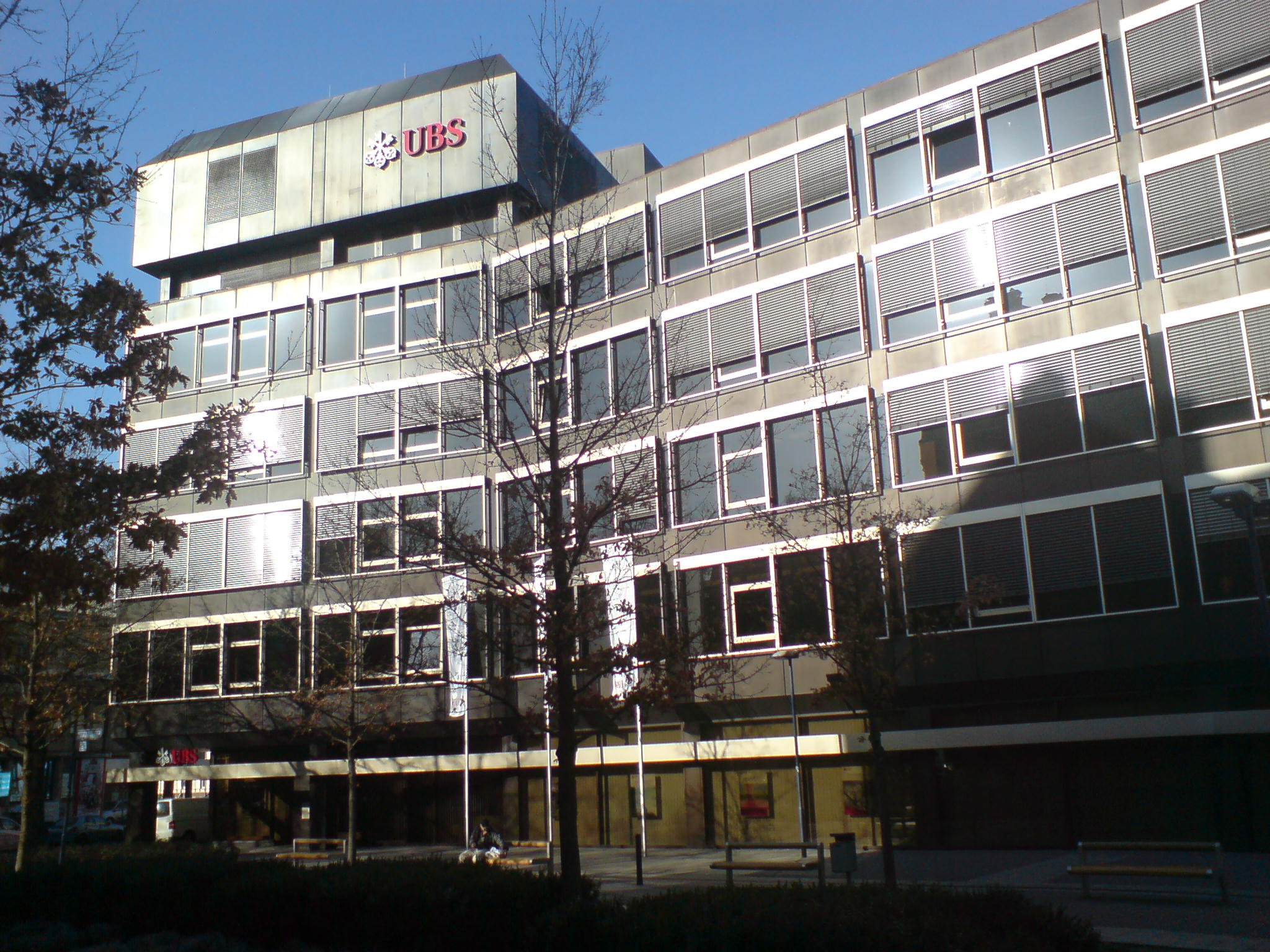 An office building on Kaiserstraße in Offenbach am Main, Hesse, Germany. It was formerly the Schröder, Münchmeyer, Hengst & Co. building.